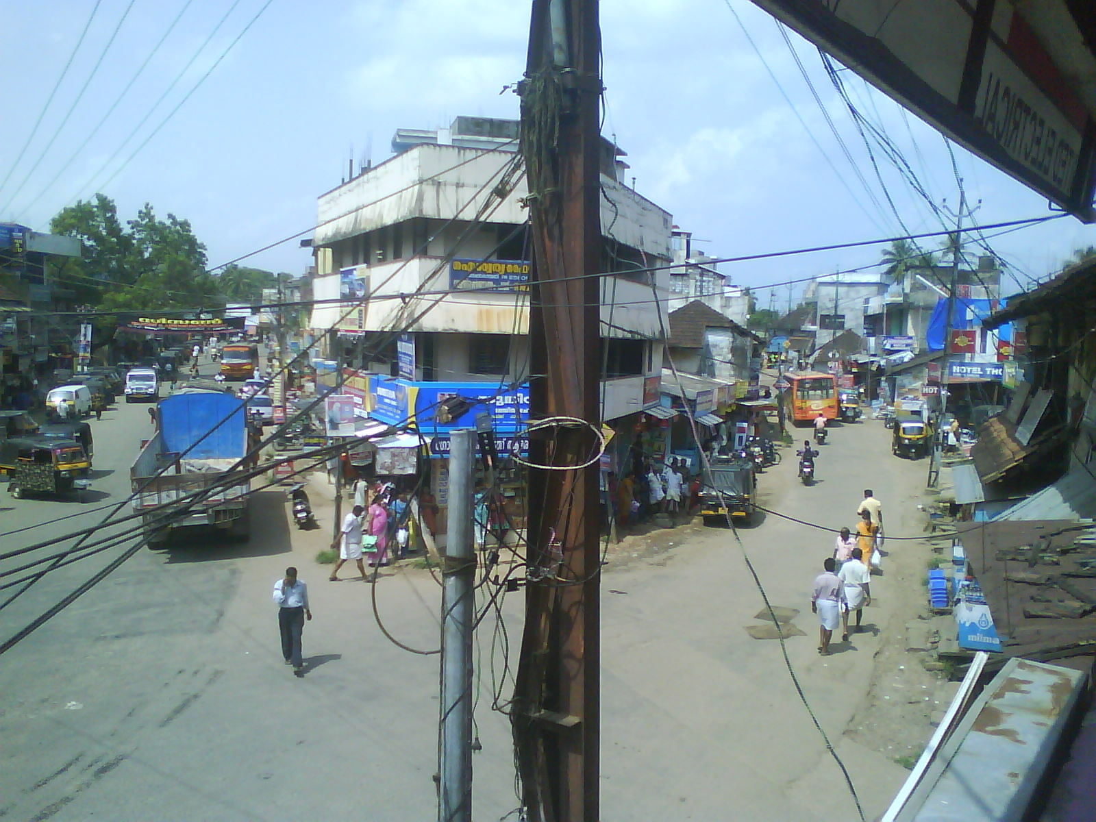 Vadakkencherry Town.